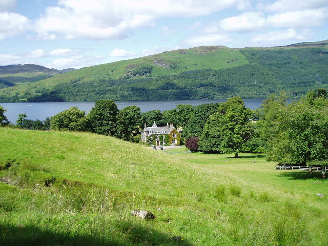 Ardvorlich house. This house has been the ancestral home of the Stewart's of Ardvorlich since 1580. Beyond can be seen Loch Earn.